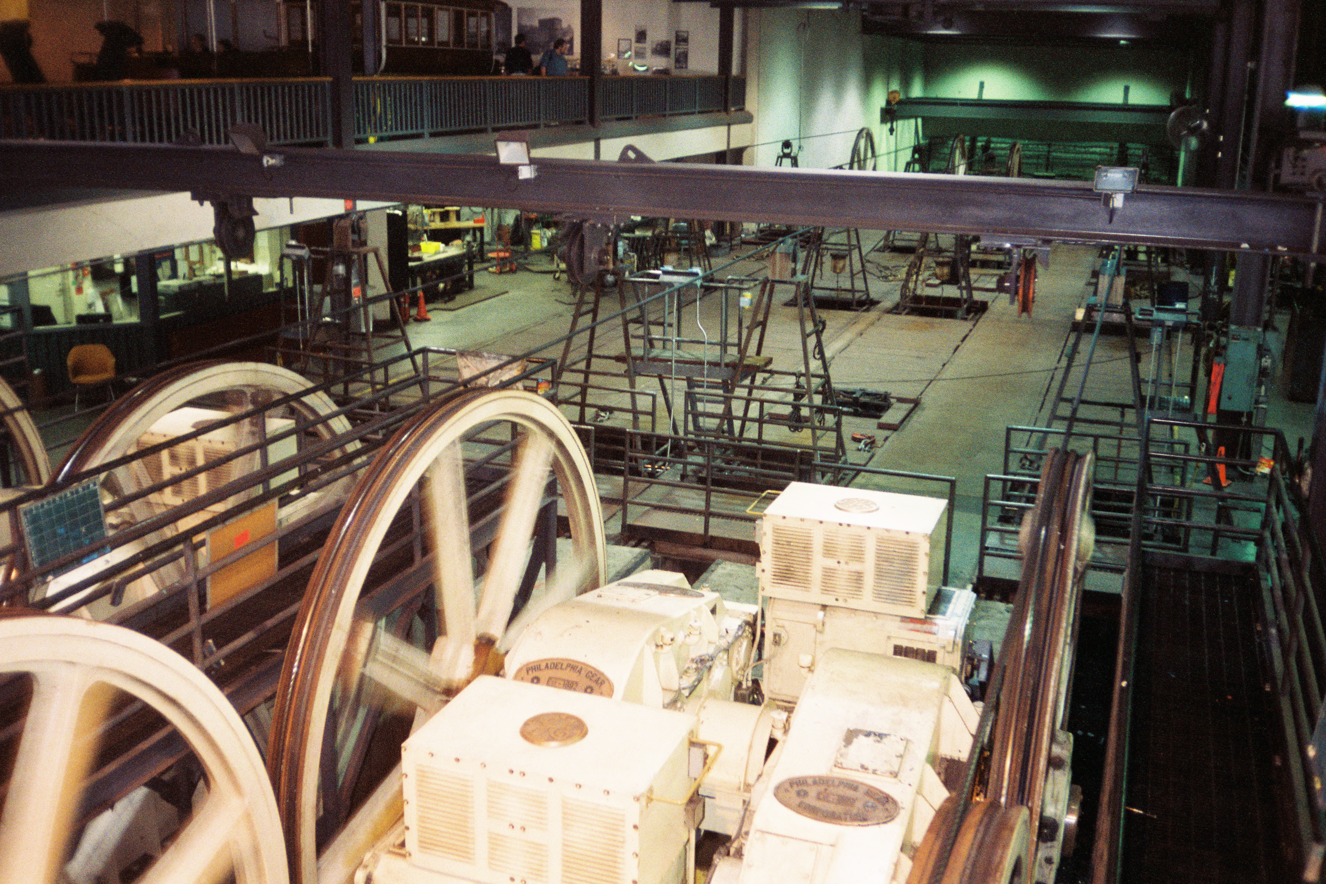 Cable car station, San Francisco